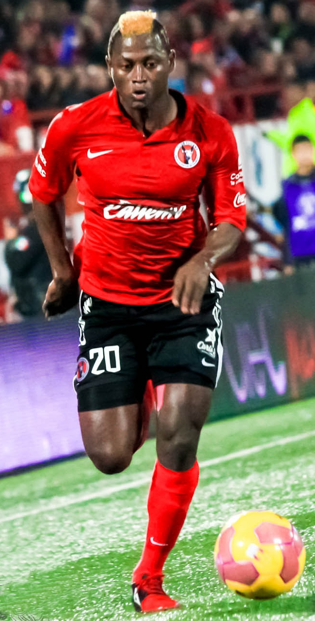 Duvier Riascos at Xolos de Tijuana vs Toluca, November 29, 2012.